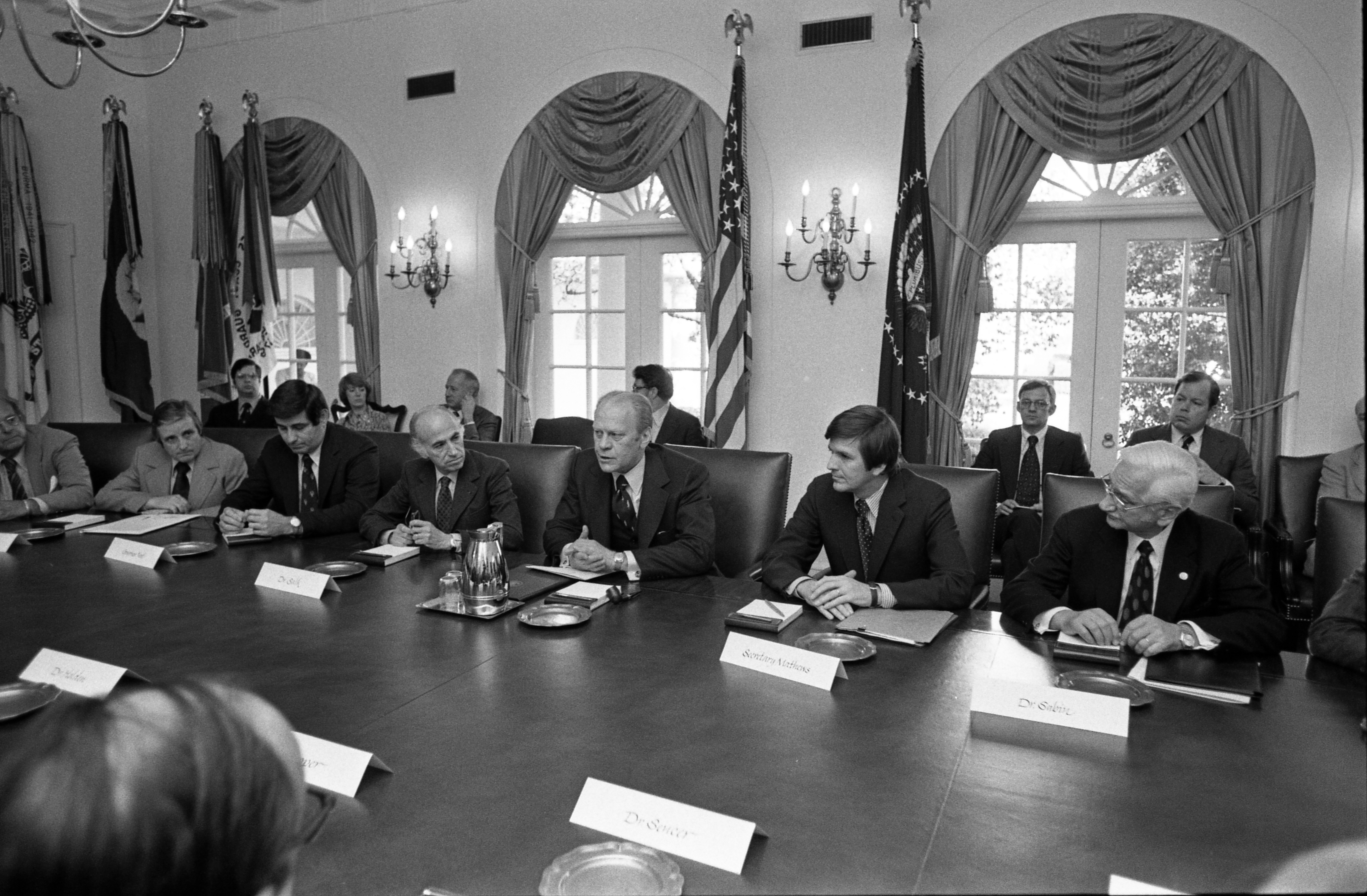 This photograph depicts President Gerald Ford conducting a meeting to discuss a Federal initiative to immunize all Americans against the swine flu influenza. Also shown are [l-r: Dr. Jonas Salk, President Ford, Department of Health Education and Welfare (HEW) Secretary F. David Mathews, Dr. Albert B. Sabin].